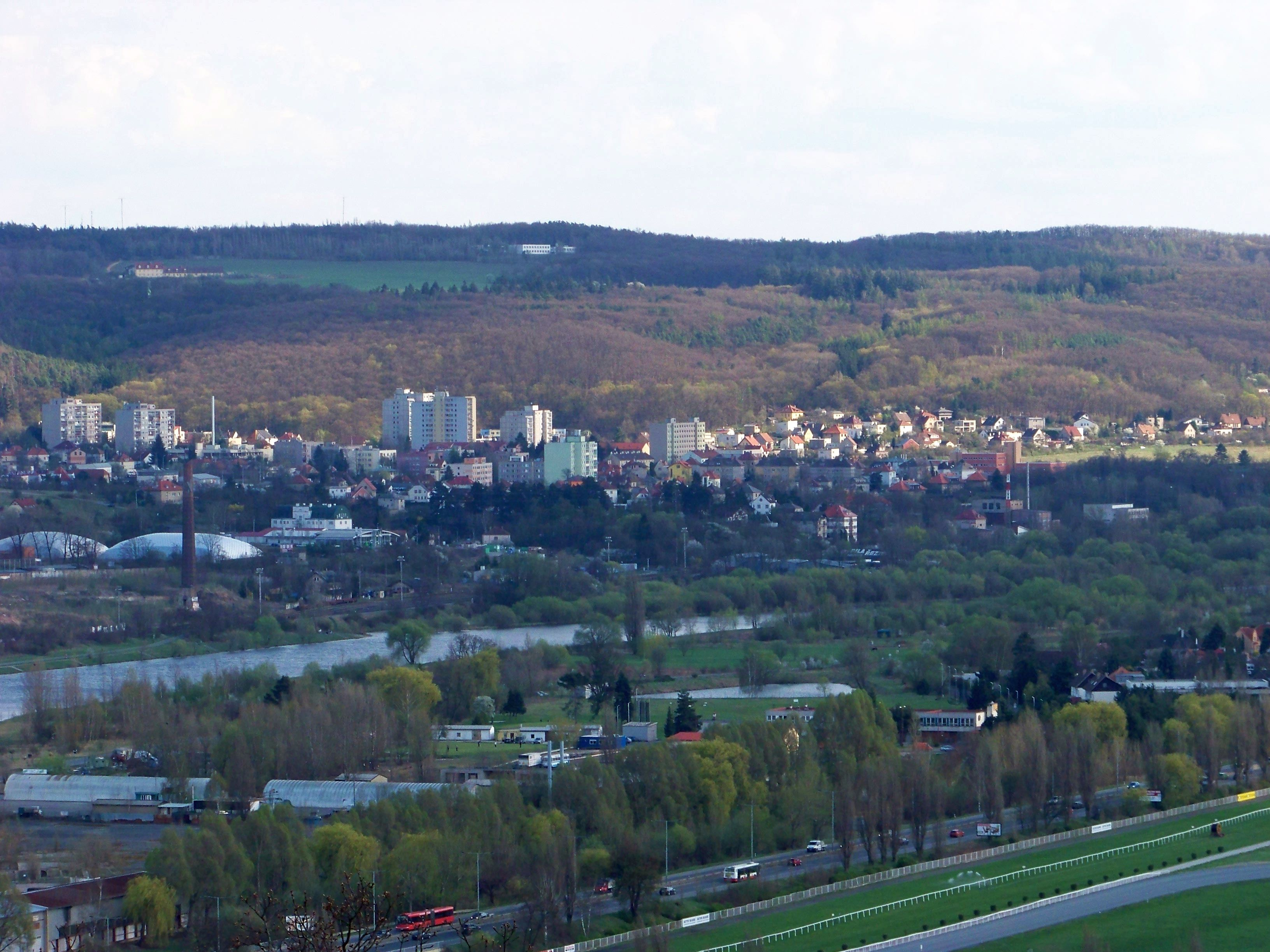 Prague, the Czech Republic. A view of Komořany from Saint John of Nepomuk Church in Chuchle Forest.